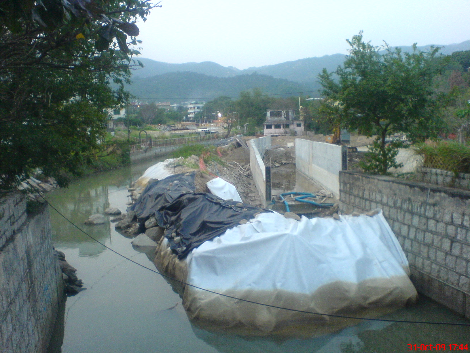 Started in 2006, project related to Pak Ngan Heung River is ongoing.